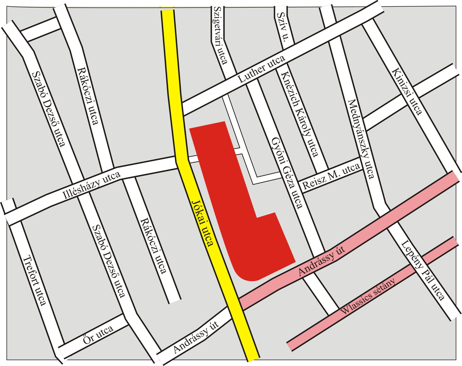 The location of the mall Csaba Center in Békéscsaba, Hungary.